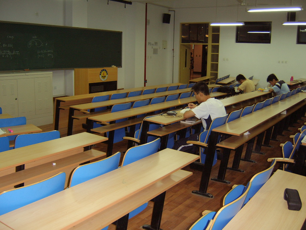 classroom 103 in Jiaoxuelou of CUMTB